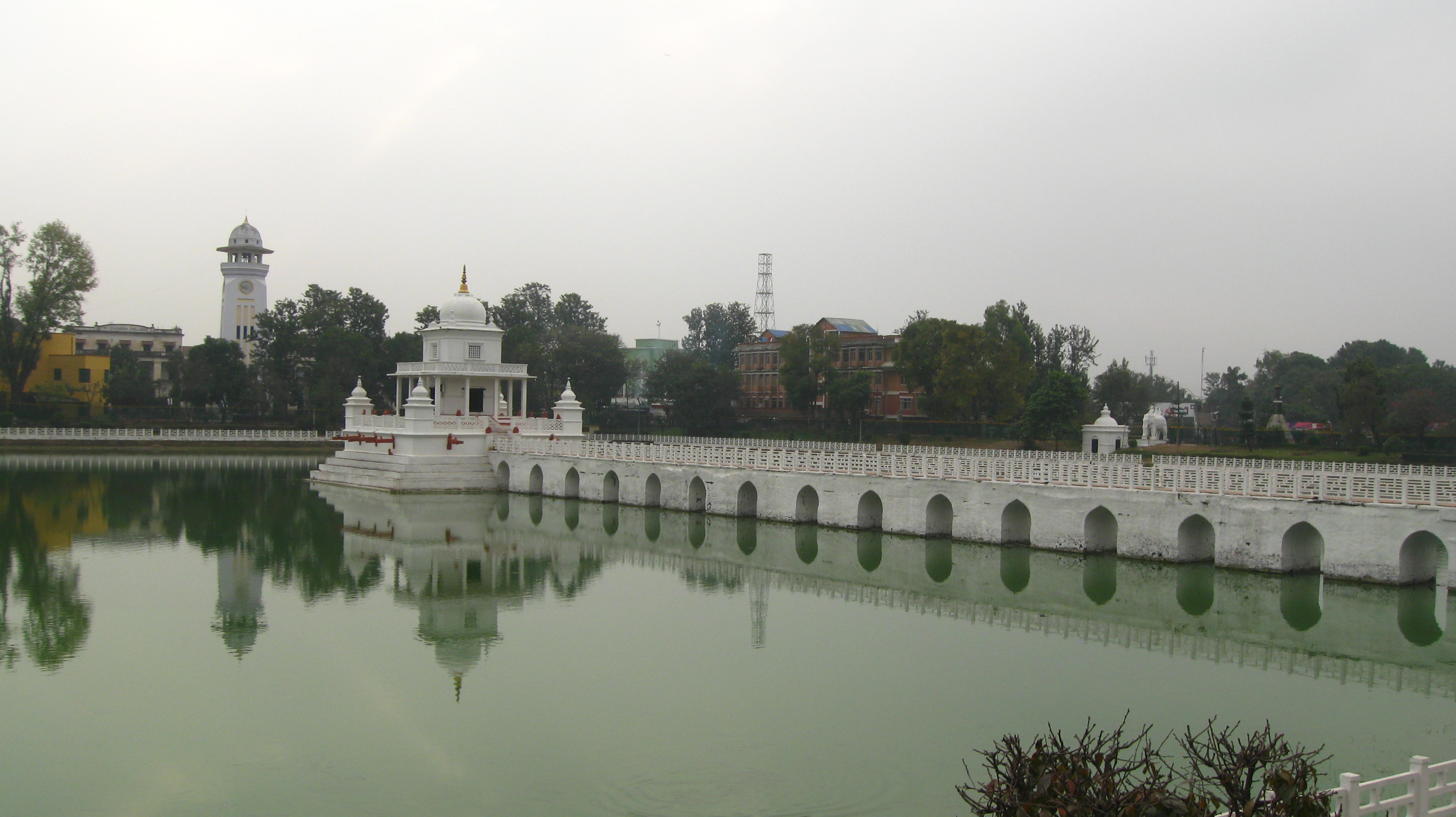 Matrikeshwor Mahadev building in the middle of Ranipokhari Pond in Kathmandu, Nepal